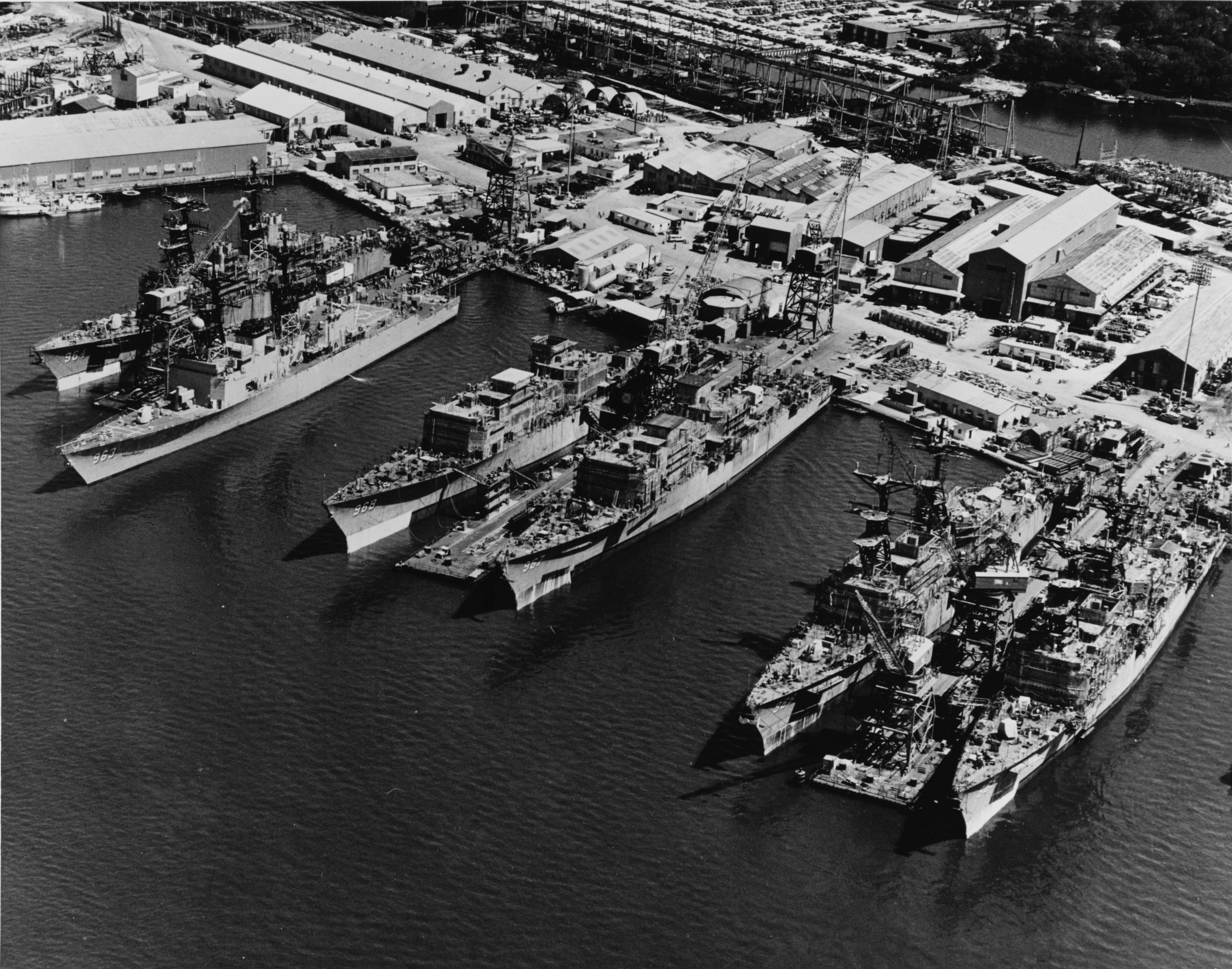 Six U.S. Navy Spruance-class destroyers fitting out at Litton-Ingalls Shipbuilding, Pascagoula, Mississippi (USA), circa in May 1975. Ships are, from left: USS Paul F. Foster (DD-964); USS Spruance (DD-963), then running trials; USS Arthur W. Radford (DD-968); USS Elliot (DD-967); USS Hewitt (DD-966) and USS Kinkaid (DD-965).